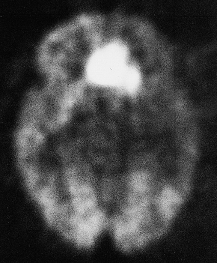 CNS: RECURRENT GLIOBLASTOMA MULTIFORME Positron emission tomography resolves this issue in favor of recurrent tumor when an intensely active or "hot" focus of metabolic activity is noted. (Courtesy of Dr. John M. Hoffman, Durham, NC.)